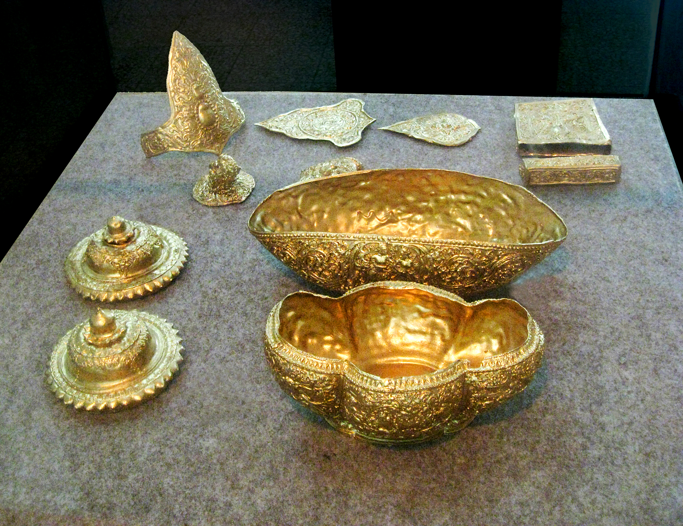 The replica of Wonoboyo hoard, displayed in Prambanan Museum, Prambanan temple complex. Wonoboyo hoard is an important archaeological findings discovered in 17 October 1990 in Plosokuning hamlet, Wonoboyo village, Klaten, Central Java, near Prambanan. It is consist of golden Ramayana bowl, water dipper, golden jewelries, and some seedlike golden currency. The real Wonoboyo hoard is now displayed at Treasure Room in National Museum of Indonesia in Jakarta.